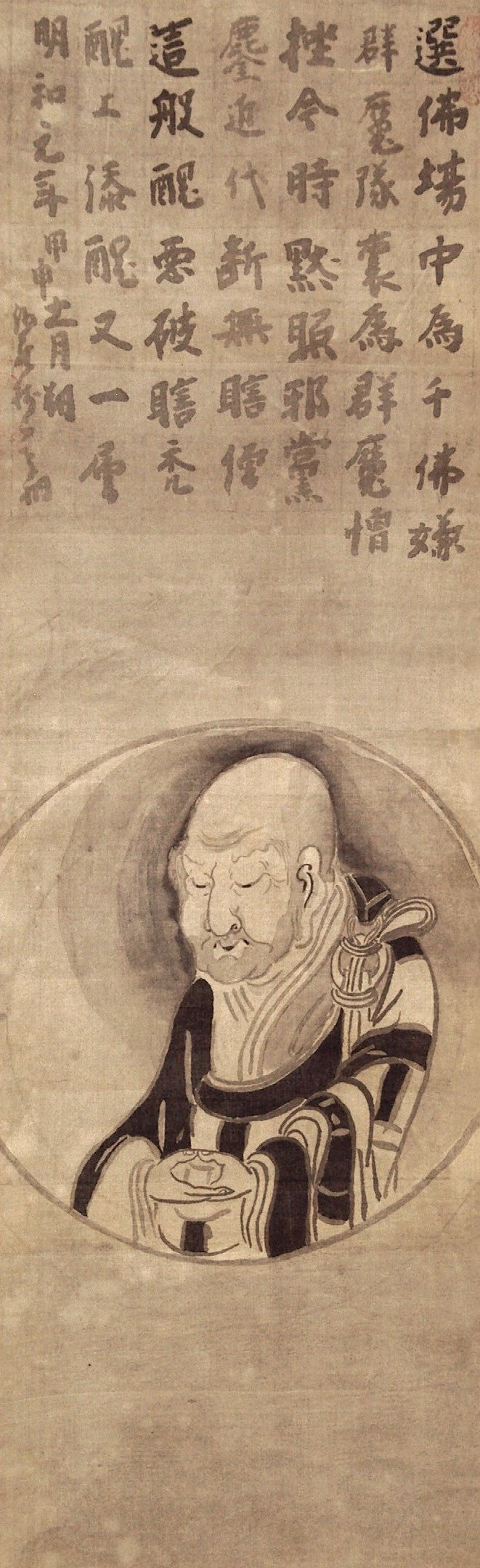 Self-portrait / Eisei Bunko Museum, Tokyo